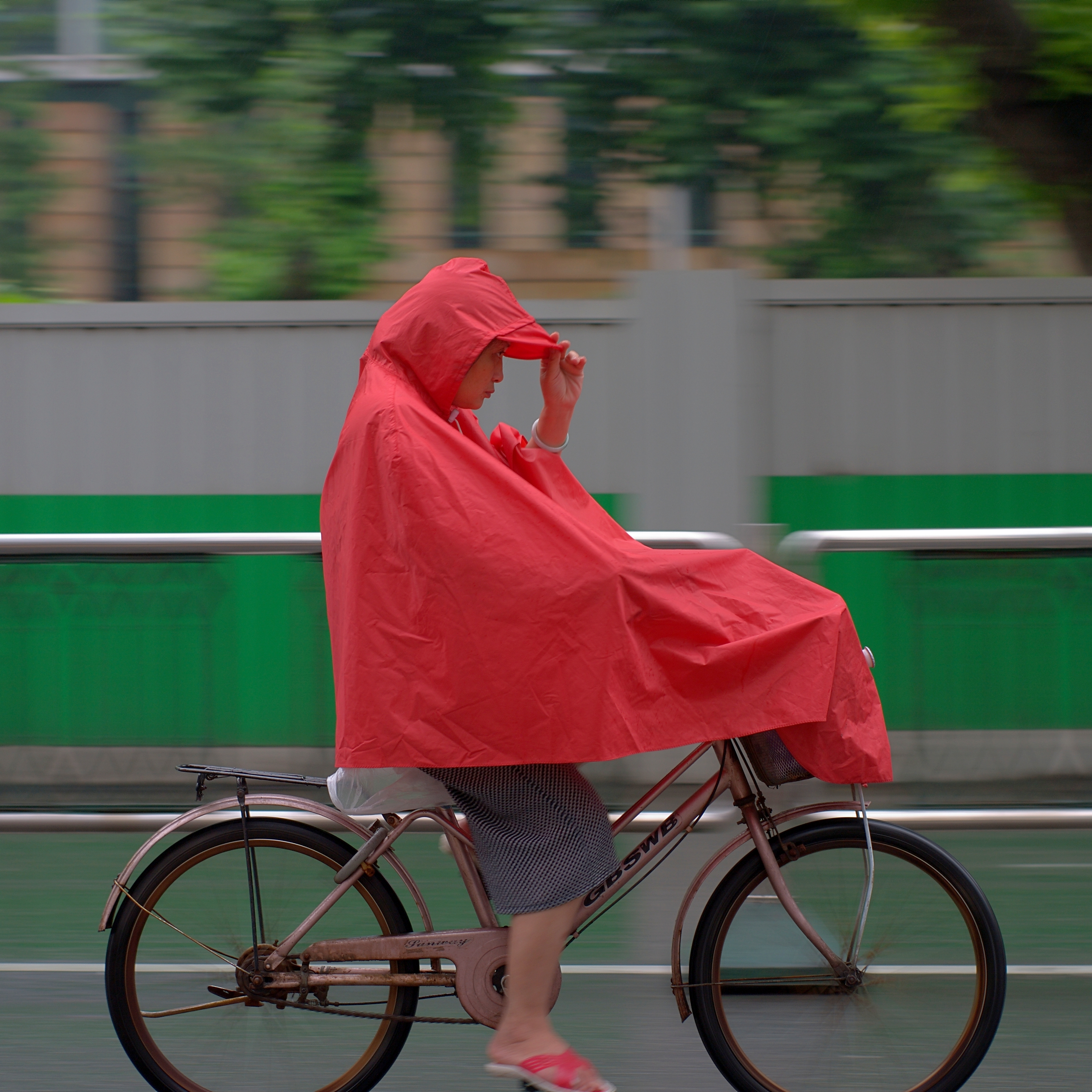 A woman is riding her bi-cycle under the rain. Nanjing, China.